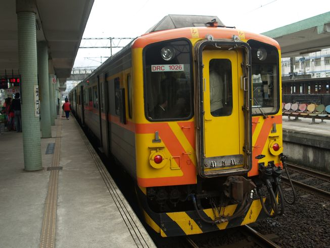 TRA DRC1026 at Rueifang Station.